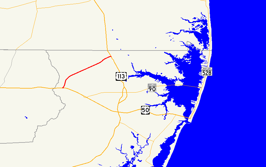 Map of Maryland Route 610